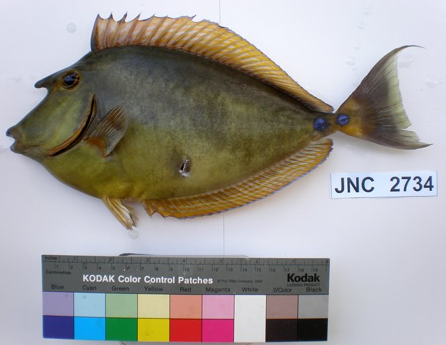 Naso unicornis. Locality: Récif de Crouy, off Nouméa, New Caledonia. Fork length 300 mm, Weight 503 grams. Date 2009/10/31. Photograph also uploaded into FishBase.